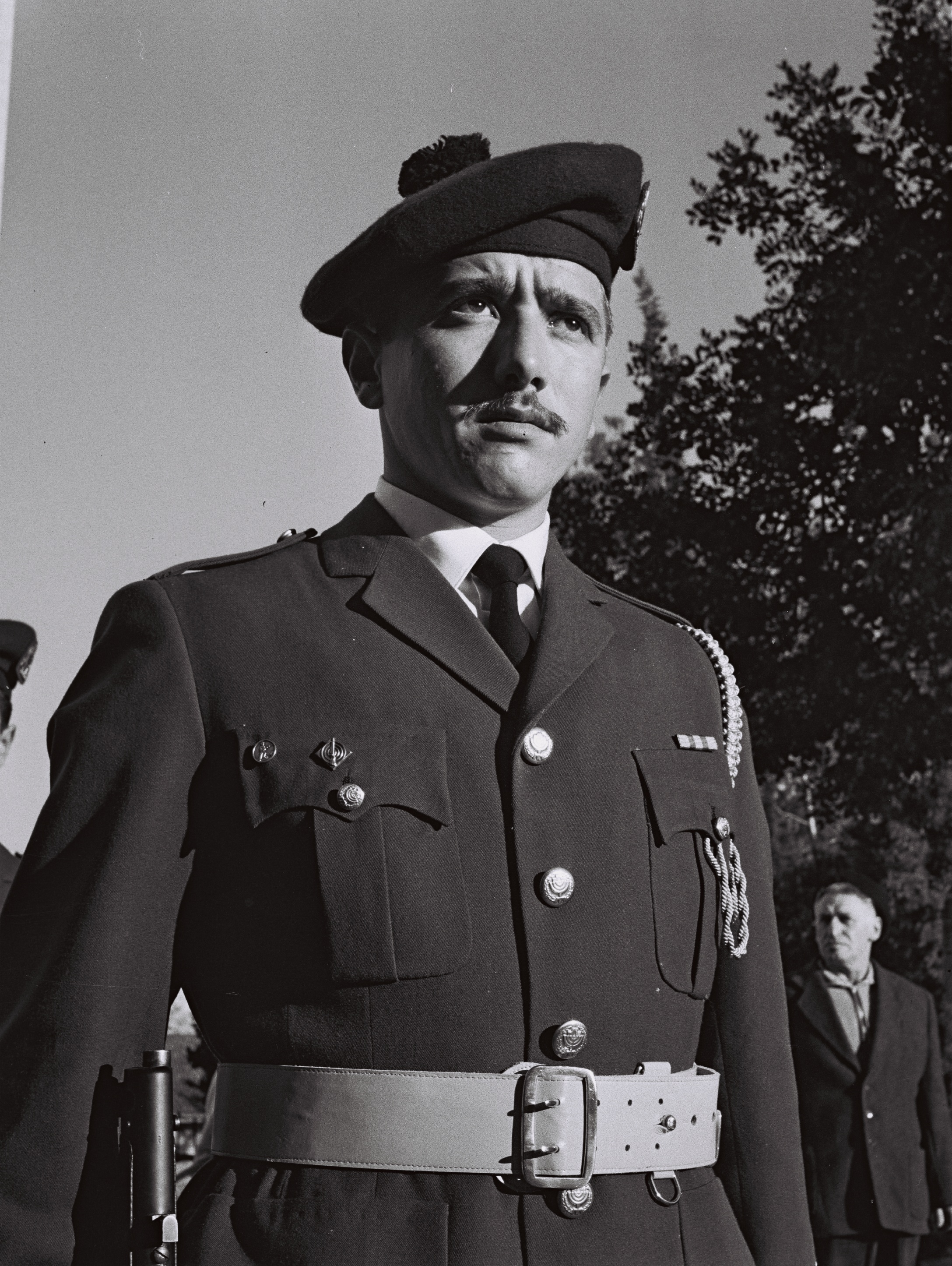 Member of the newly established Knesset Guard, Jerusalem, Israel. January 1959